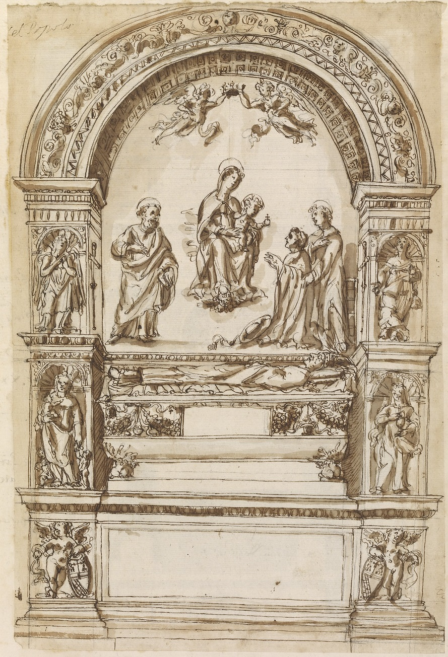 The tomb of Lorenzo Cibo, originally in Santa Maria del Popolo, now pieces of it exist in San Cosimato. The only known drawing which shows the original appearance of the dismantled monument.